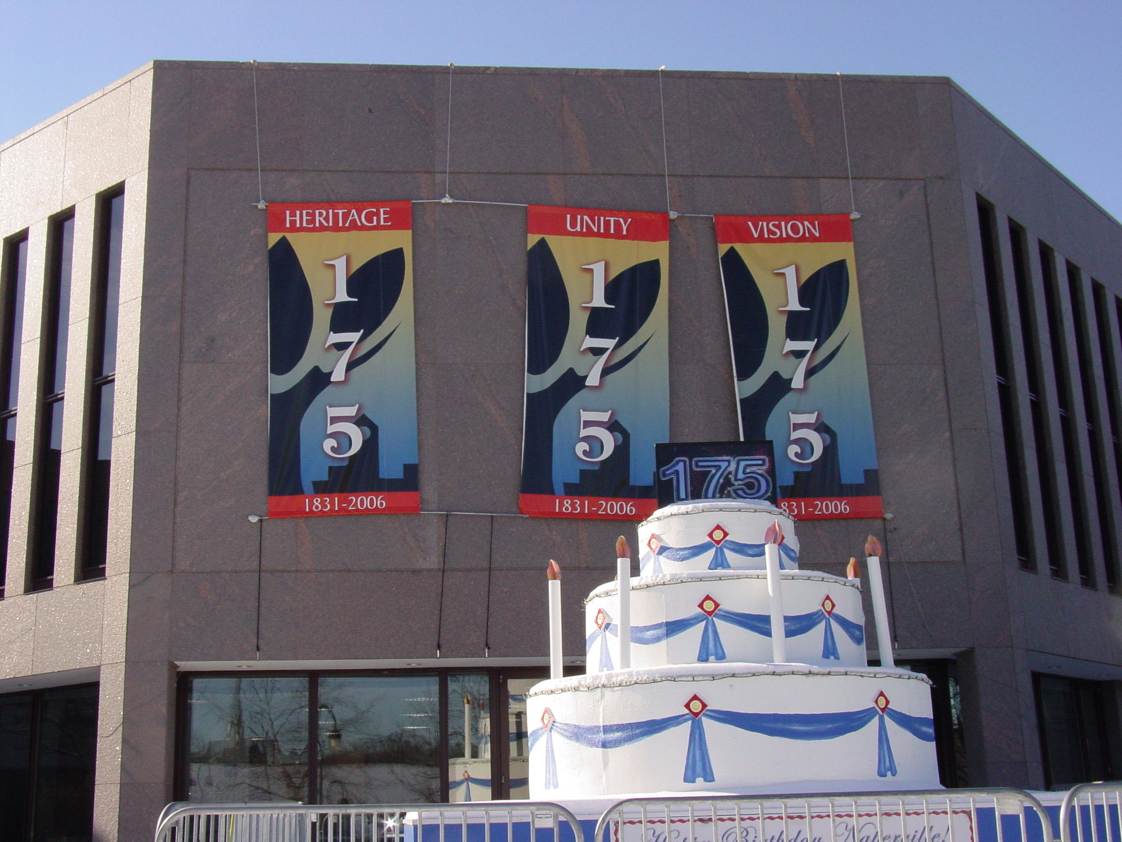 Display outside City Hall in Naperville, Illinois with parade float and banners marking the 175th anniversary of the settlement of Naperville by Joseph Naper.